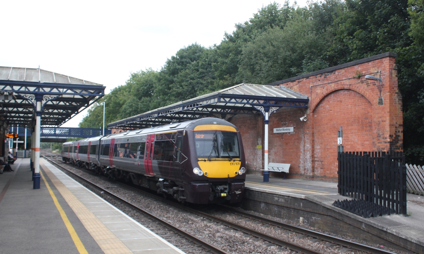 CrossCountry 'Turbostar' 170191 at Melton Mowbray with a Stansted Airport to Birmingham New Street service.